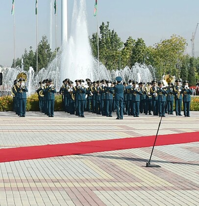 The Dushanbe Garrison Brass Band at the Palace of Nations in 2013